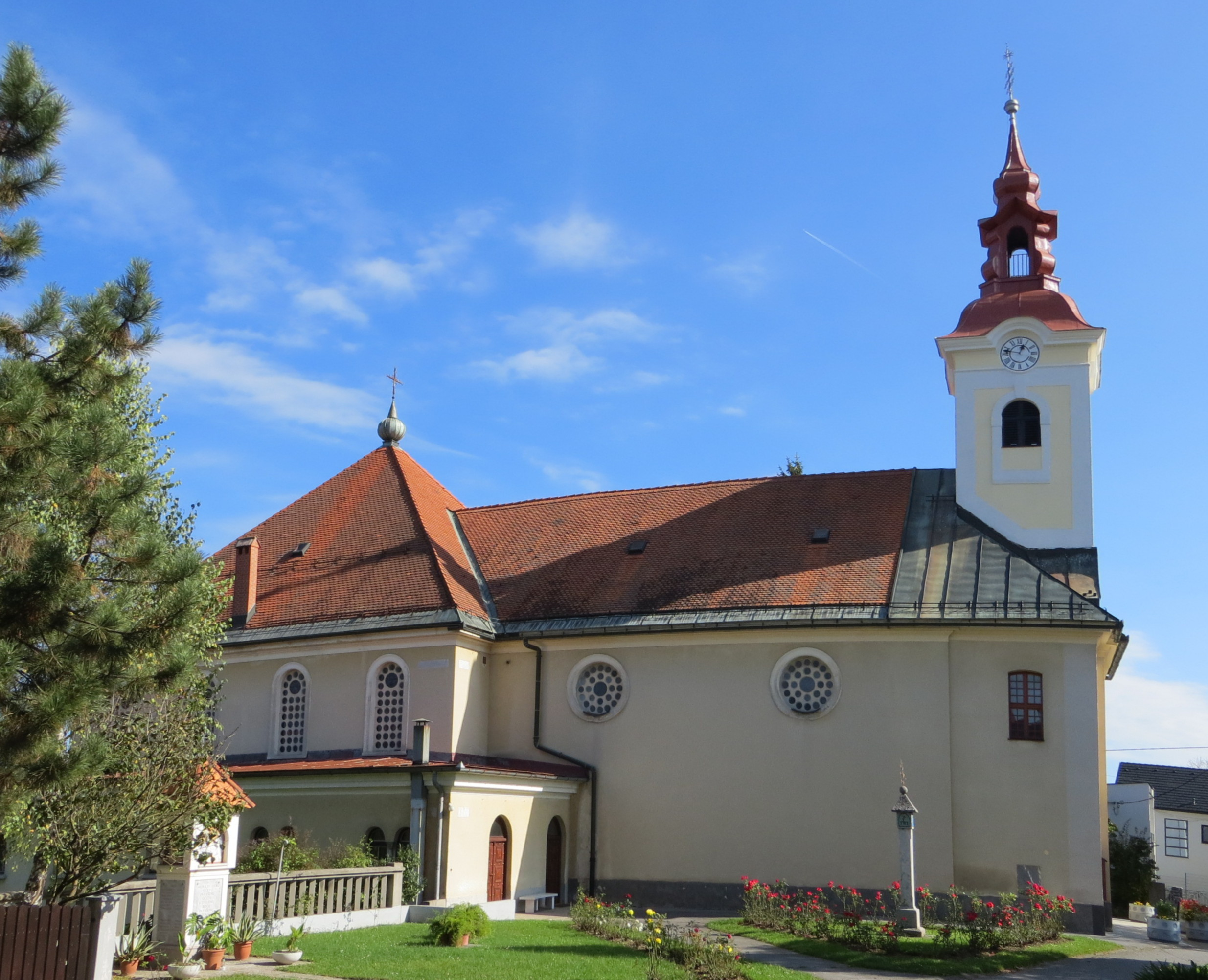 Church in Ježica, City Municipality of Ljubljana, Slovenia